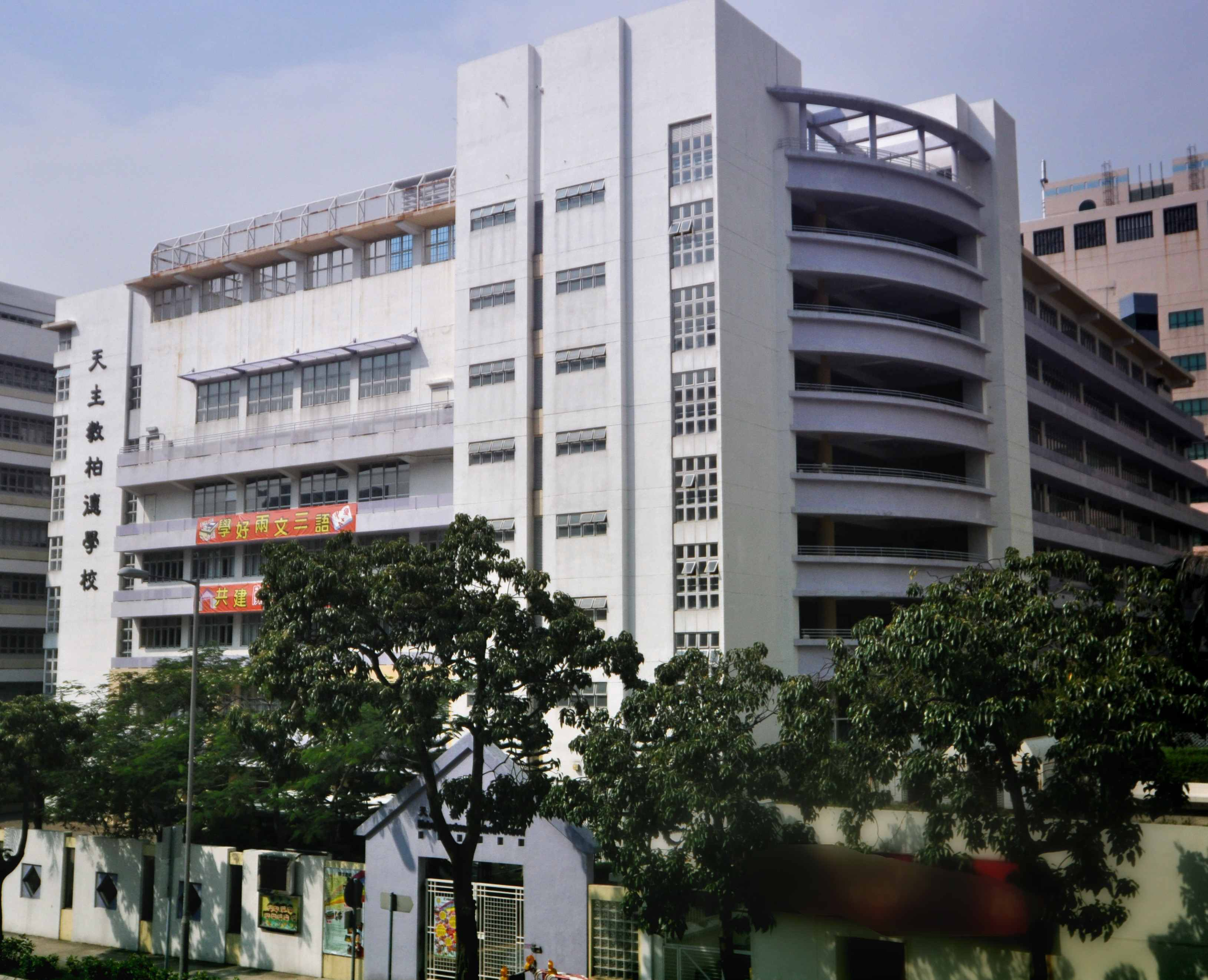 photo showing front elevation of Bishop Paschang Catholic School